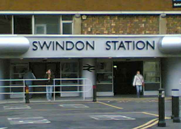 Swindon Railway Station entrance.